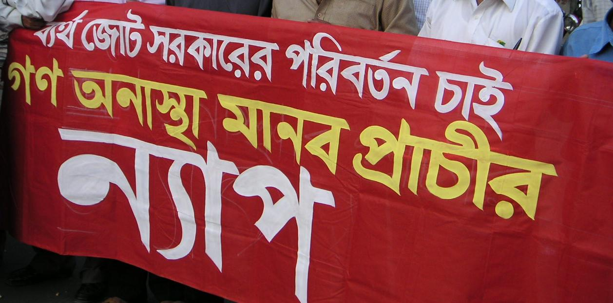 National Awami Party (Muzaffar) banner at opposition rally, Dhaka.